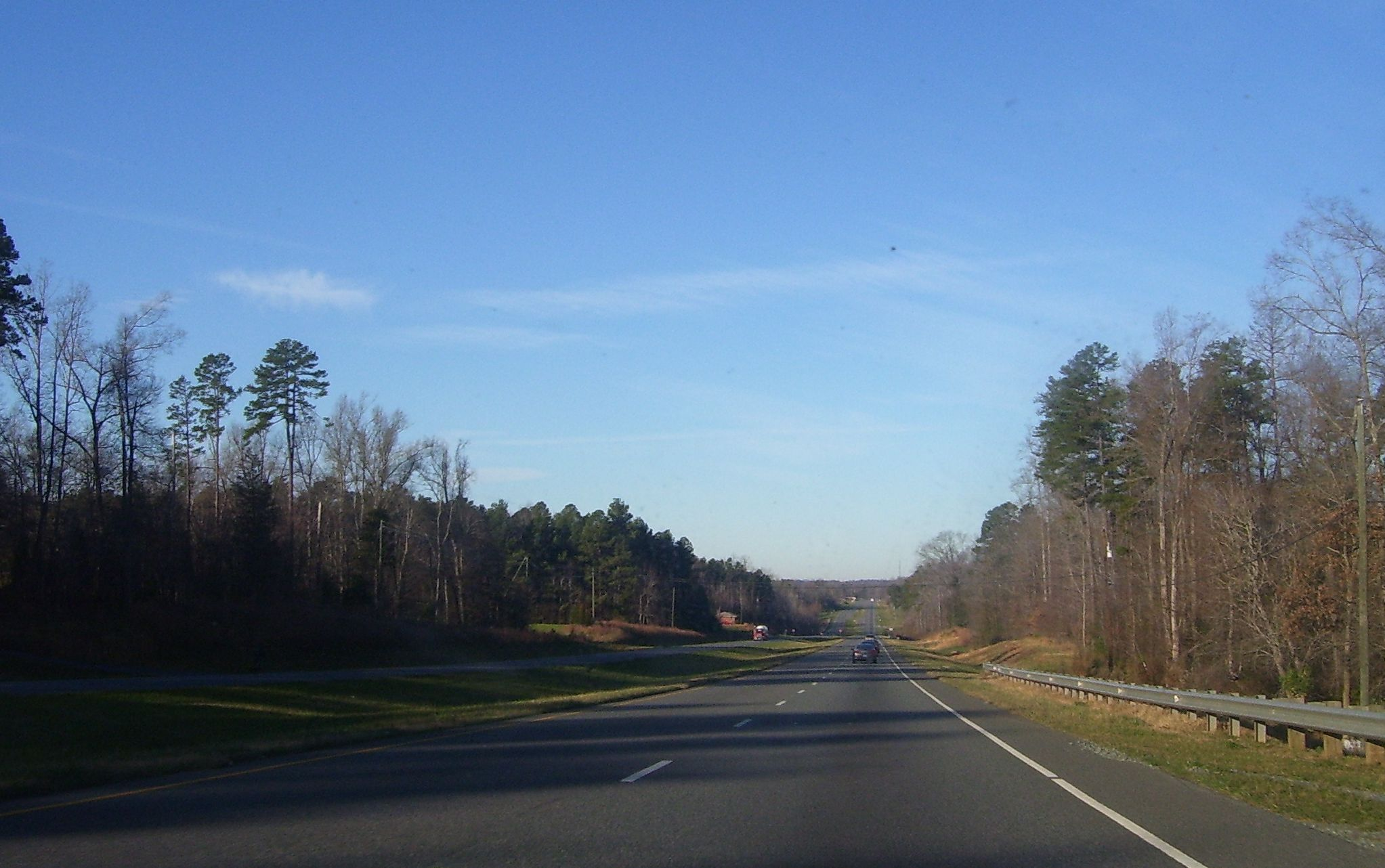 Highway US 64 W, near Siler city, NC, USA. Taken by me.